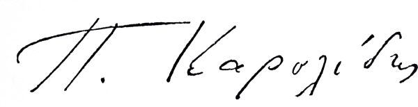 Pavlos Karolidis signature